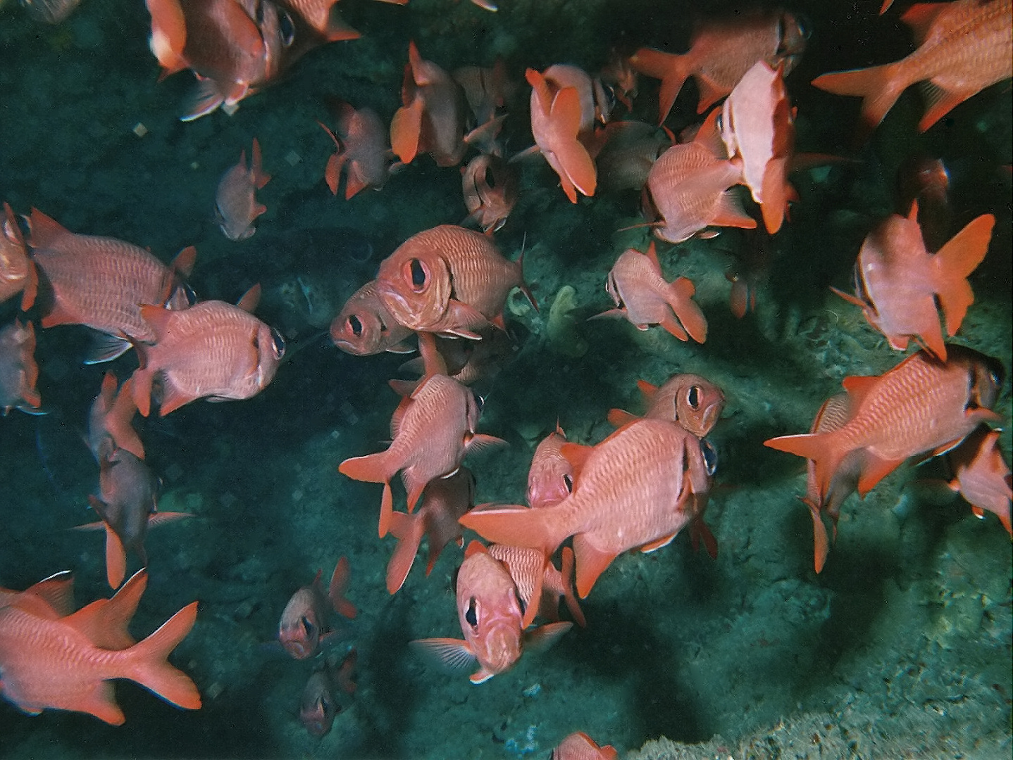 Big eye soldierfish off Trou aux Biches, Mauritius.